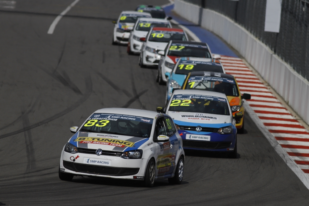 RCRS-2016-4-Sevastyanov